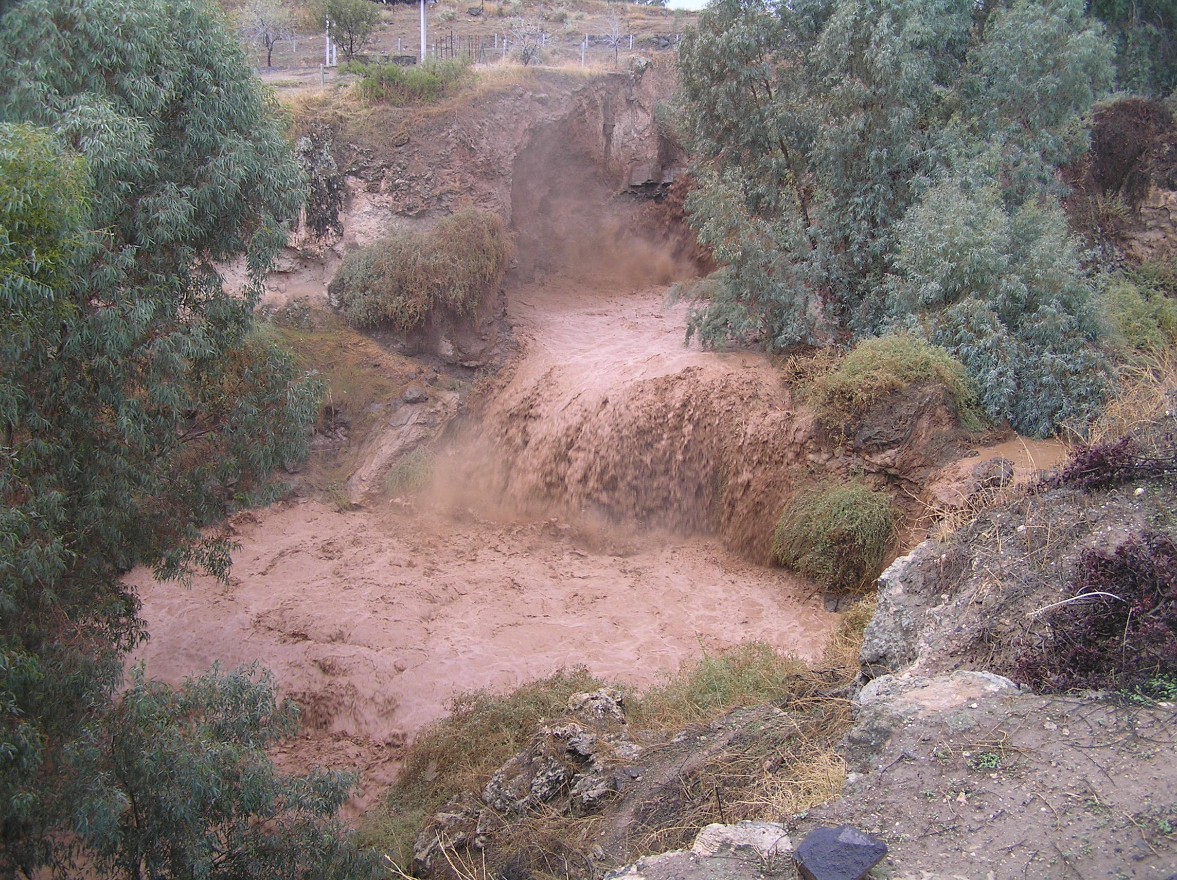 Nahal Harod, Israel זרימה חורפית ב"קניון הבזלת" בנחל חרוד